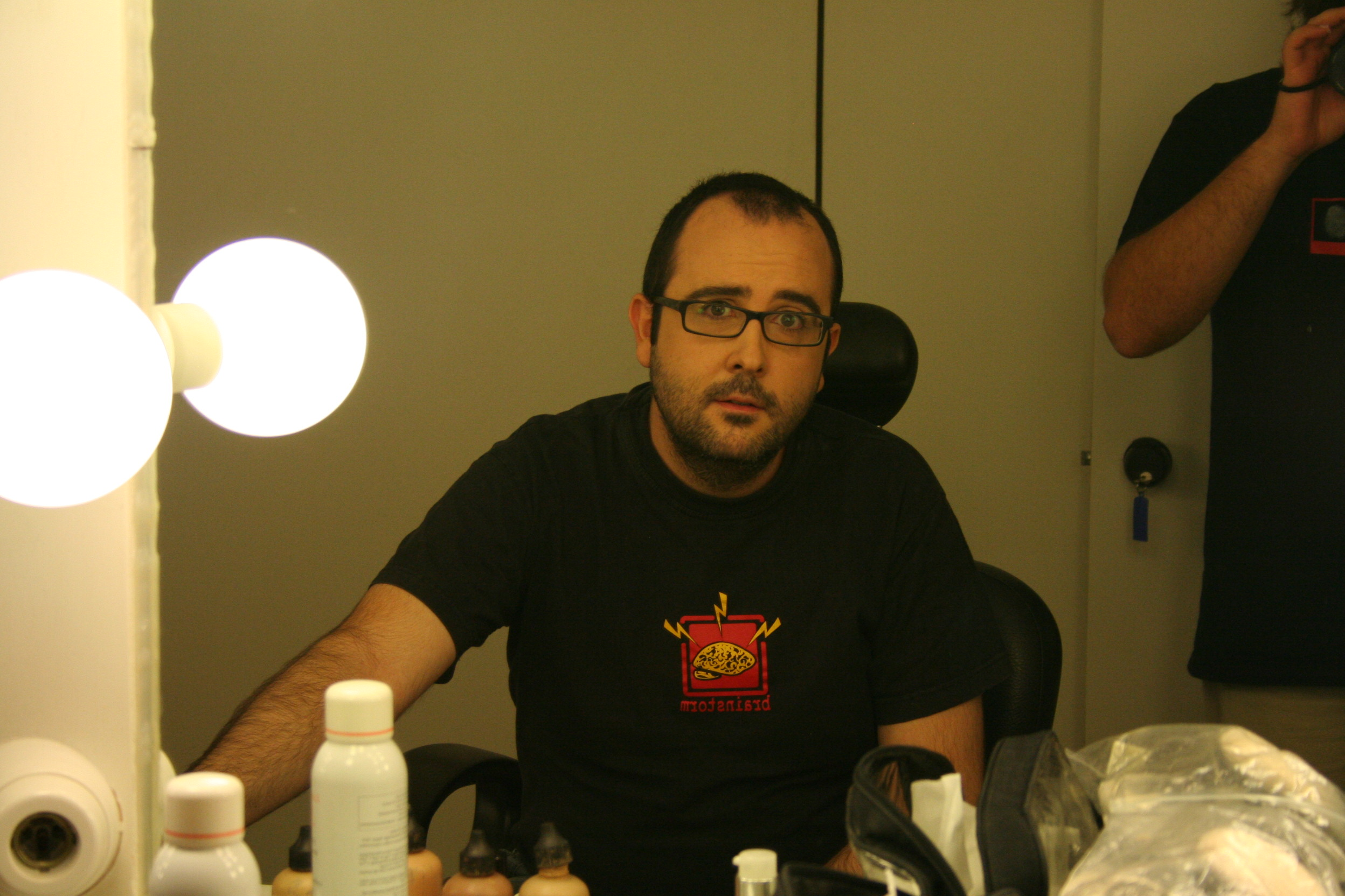 Spanish actor Carlos Areces in make-up.